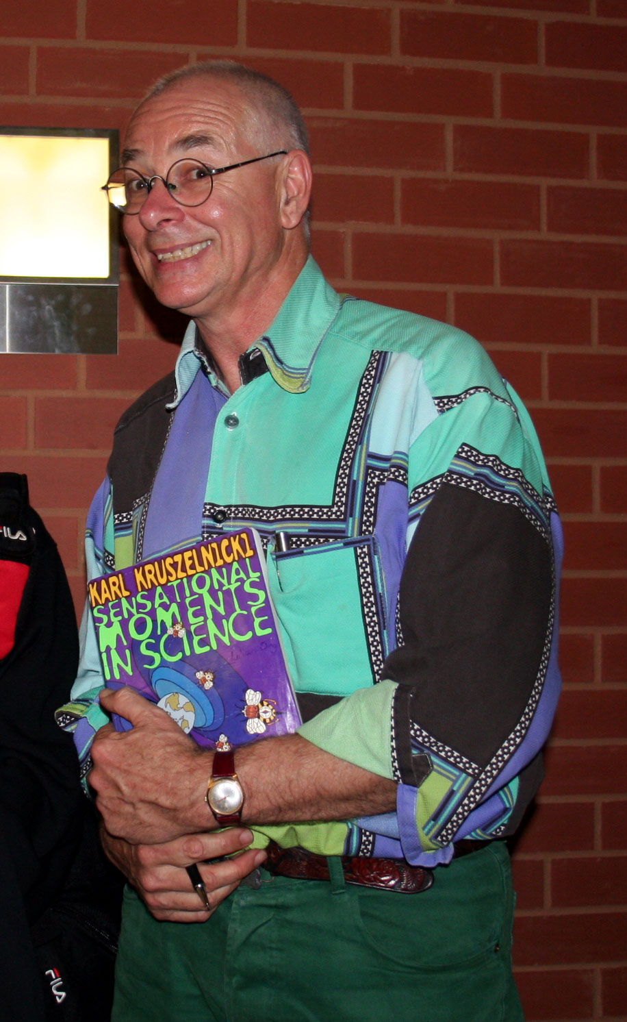 Karl Kruszelnicki holding a copy of his book, Sensational Moments in Science, at Sydney Uni Live! (the University of Sydney's open day). Taken by Enoch Lau on 26 August 2006. As a courtesy, please let me know if you alter this image or this image description page. Original filename was IMG_0617.JPG.